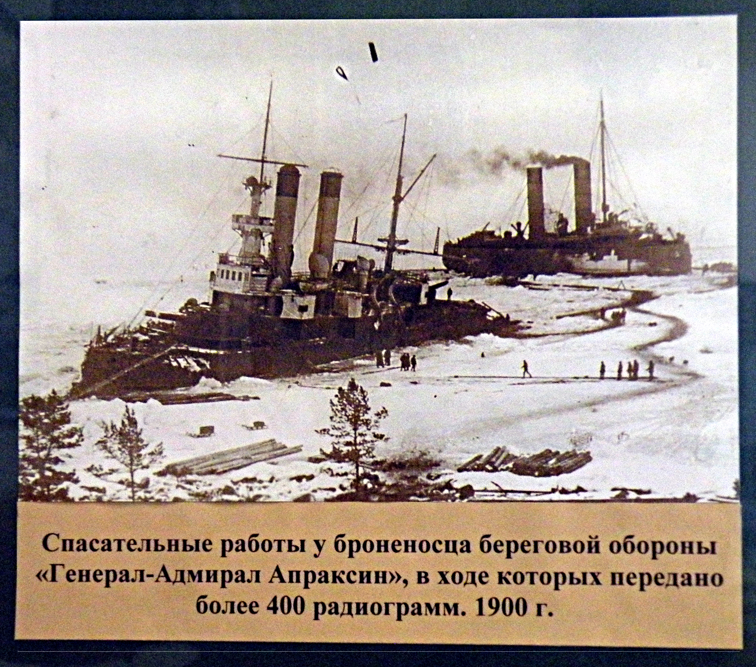 Erste_resque_wih_wireless